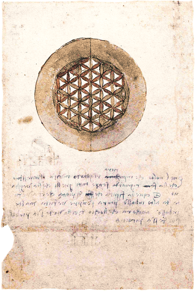 This is a picture of one of Leonardo da Vinci's drawings of geometrical structures related to the ornamental structure named today “Flower of Life”. The Italian text reads: Quel volto che in pittura riguardò in viso al maestro che lo fa, riguarda sempre tutti quelli che lo veggano. E quella figura che dipinta era veduta da alto in basso, parrà sempre veduta da alto in basso ancora che l’occhio di chi la vede sia più basso d’essa pittura.